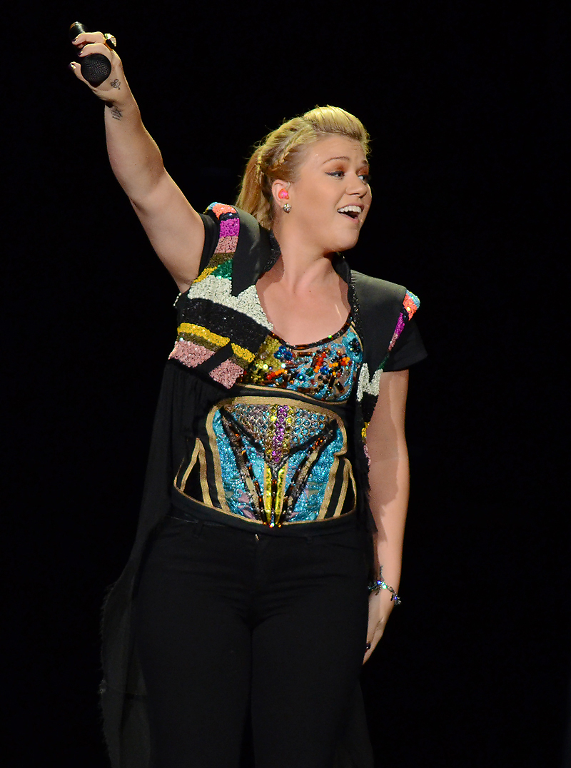 Kelly Clarkson performing at Jiffy Lube Live on August 23, 2012 as part of her 2012 Summer Tour with The Fray